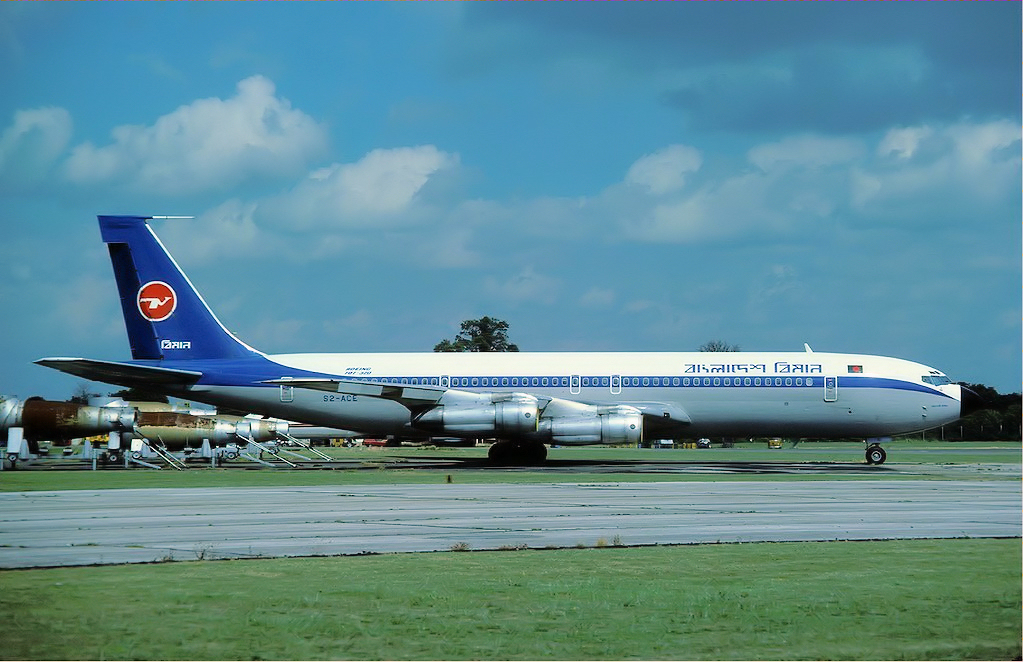 A Boeing 707 of Biman Bangladesh Airlines at London Stansted Airport